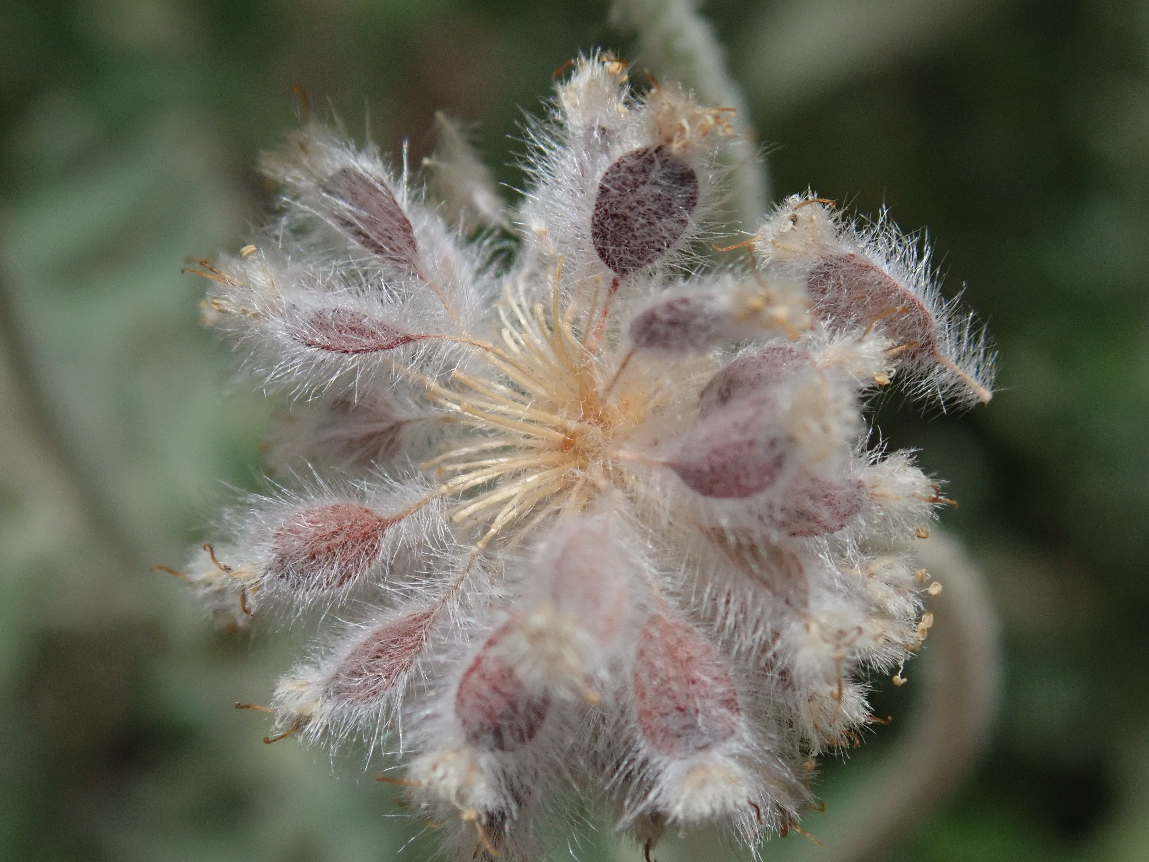 Actinotus helianthi seedhead, McKay Reserve, Palm Beach, NSW, 05/01/2018